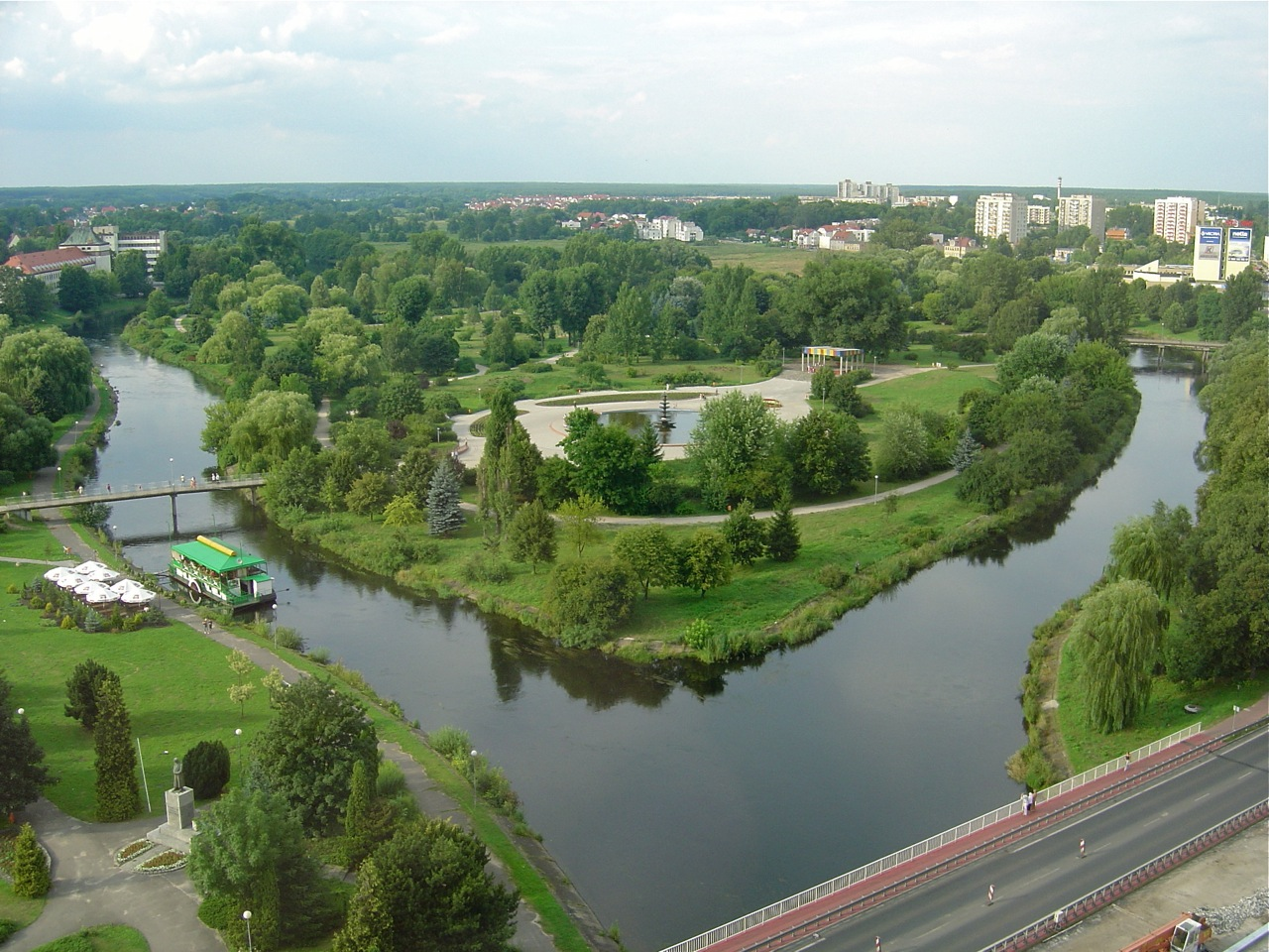 The gwda river flowing through the inner city of the city of Piła, Poland (formerly Schneidemühl), as seen from the top of Gromada / Rodło hotel.